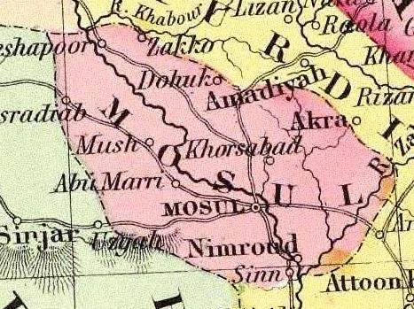 Turkey In Asia And The Caucasian Provinces Of Russia. Published By J.H. Colton & Co. No. 172 William St. New York. Entered ... 1855 by J.H. Colton & Co. ... New York. No. 25